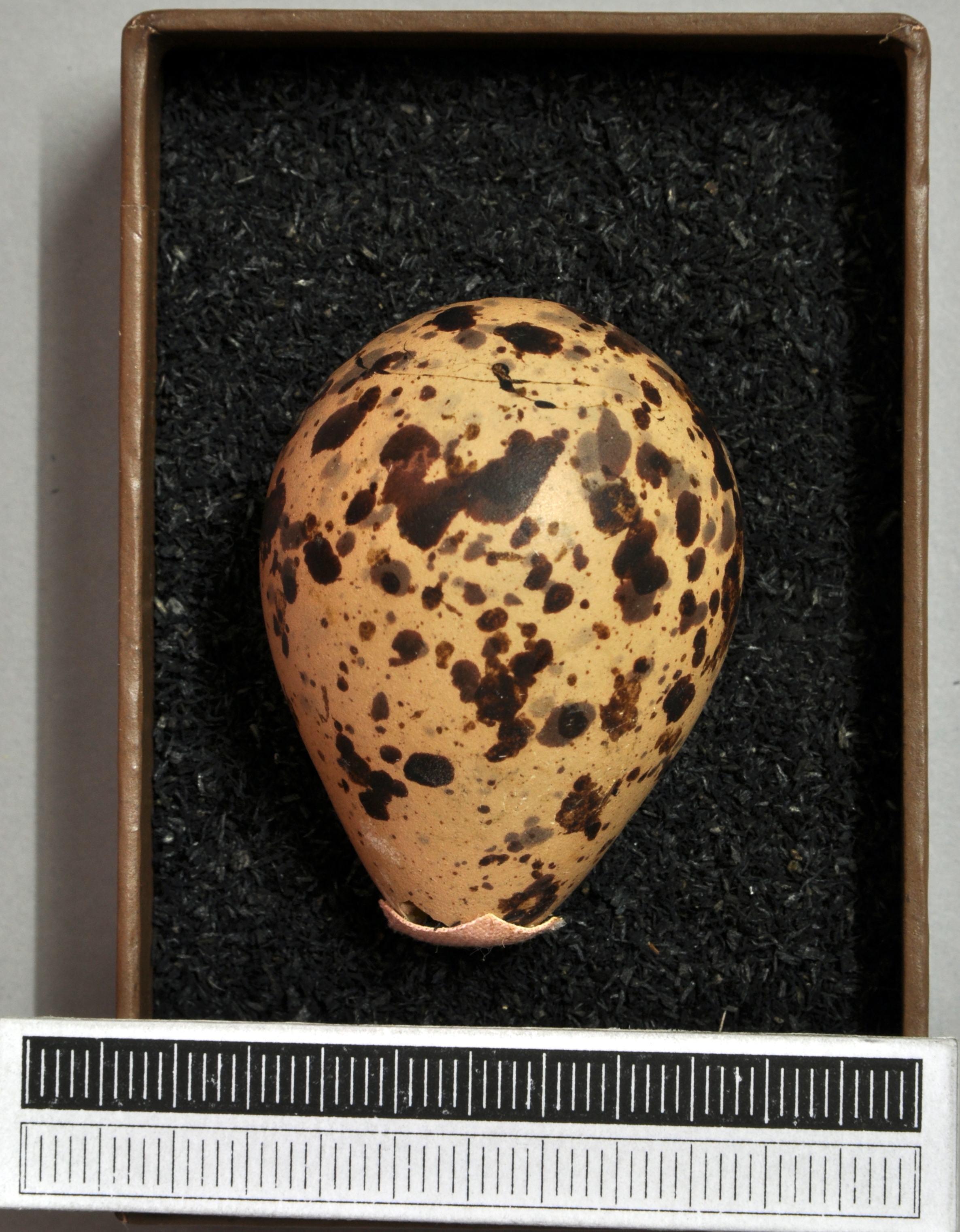 Common greenshank Tringa nebularia , egg, Coll. Museum Wiesbaden